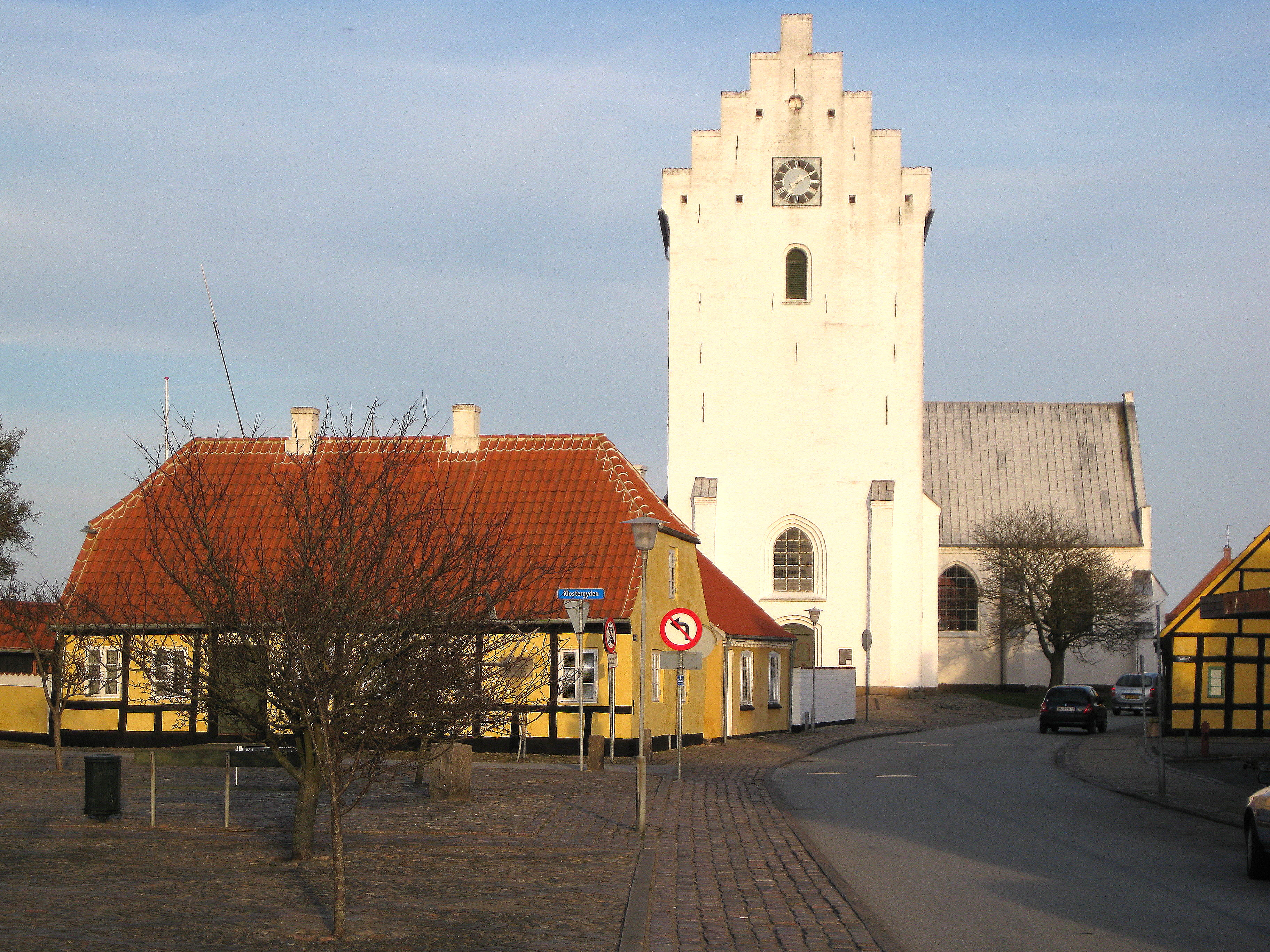 A view at the square "Klostertorvet" in the small town "Sæby". The town is located in North Jutland, Denmark.